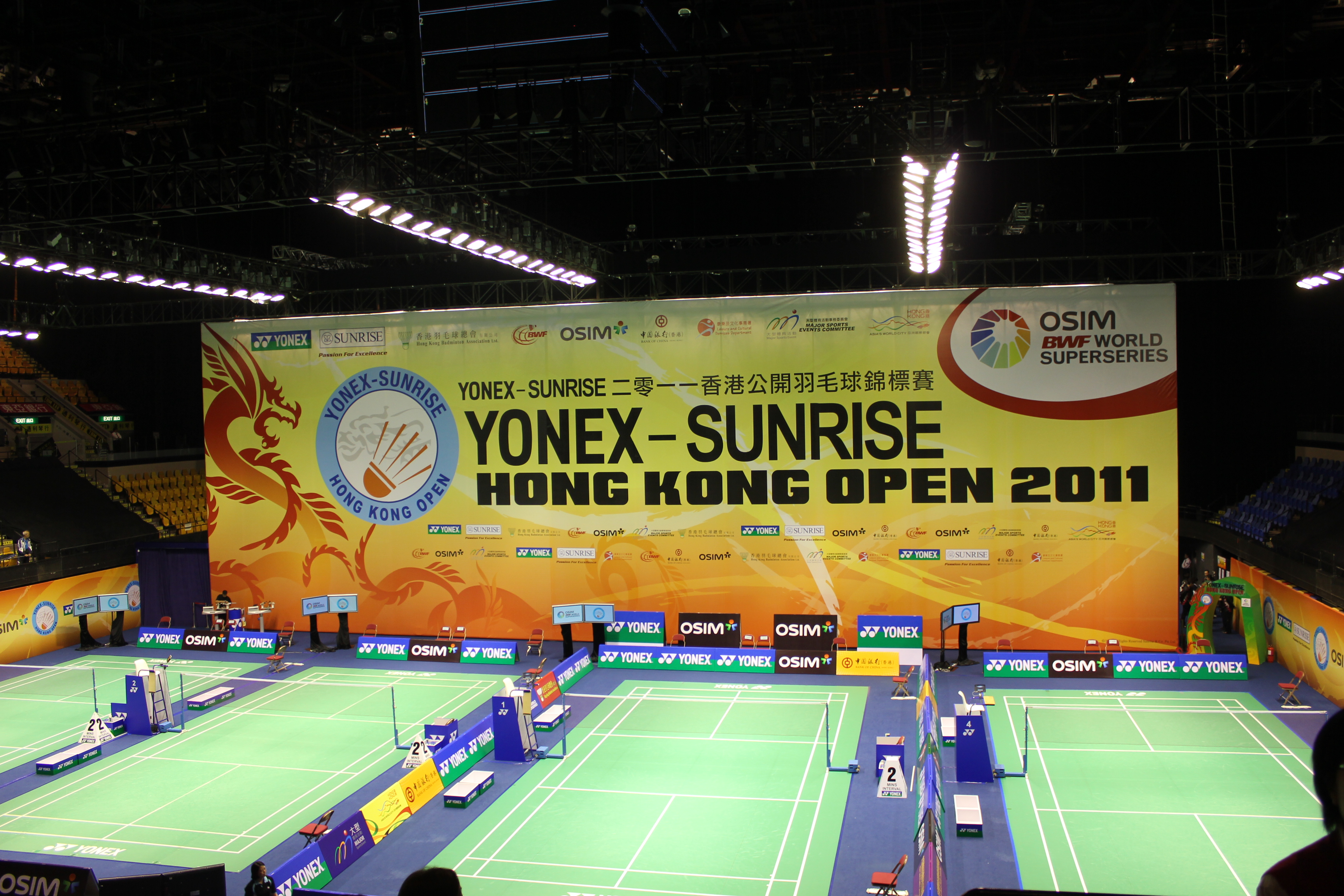 Hong Kong Open Badminton Championships 2011 - The courts and setting in Hong Kong Coliseum